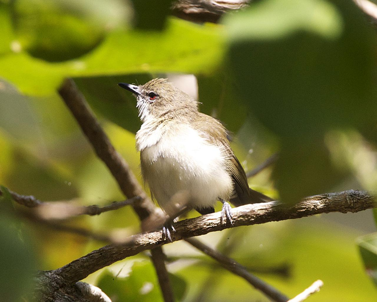 Mangrove Gerygone (Gerygone levigaster) nominate race Northern Territory, Australia August 2010 690V9905